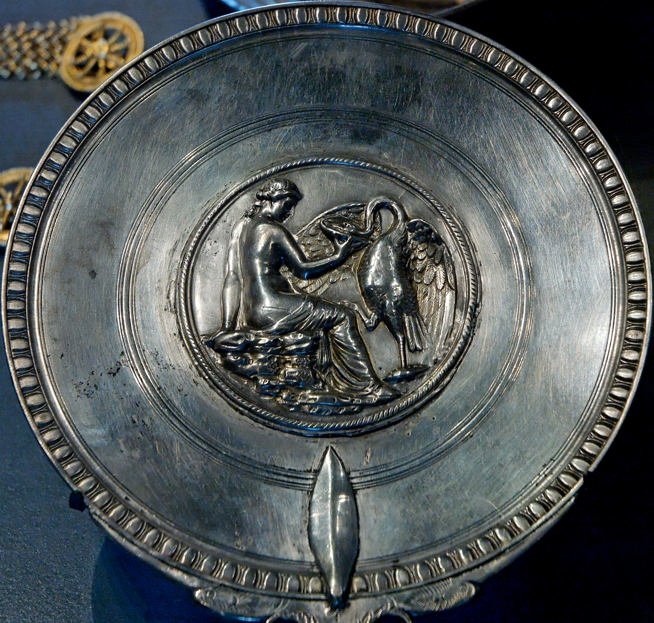 Handle mirror with Leda and the swan. Silver with repoussé decoration, late 1st century BCE–early 1st century CE. From the Boscoreale Treasure.